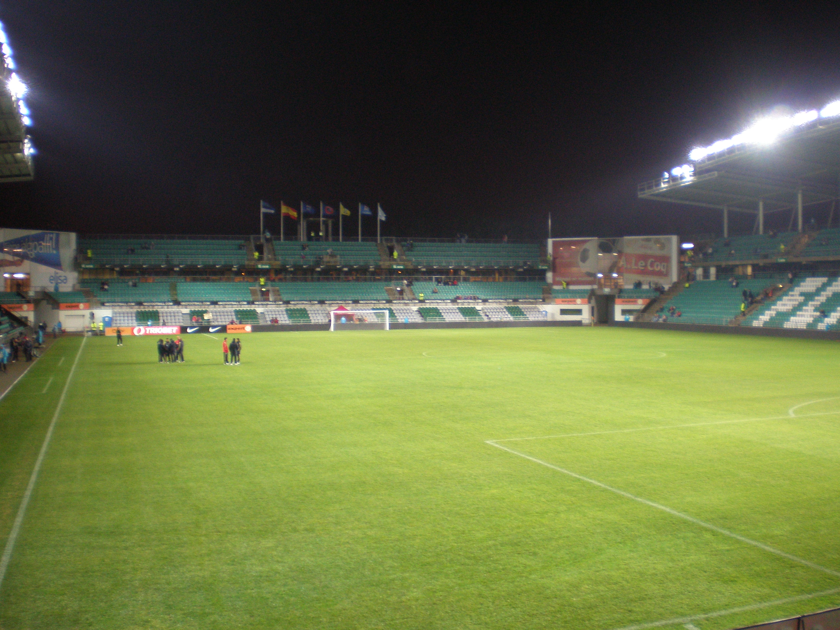 A. Le Coq Arena before Estonia vs. Spain